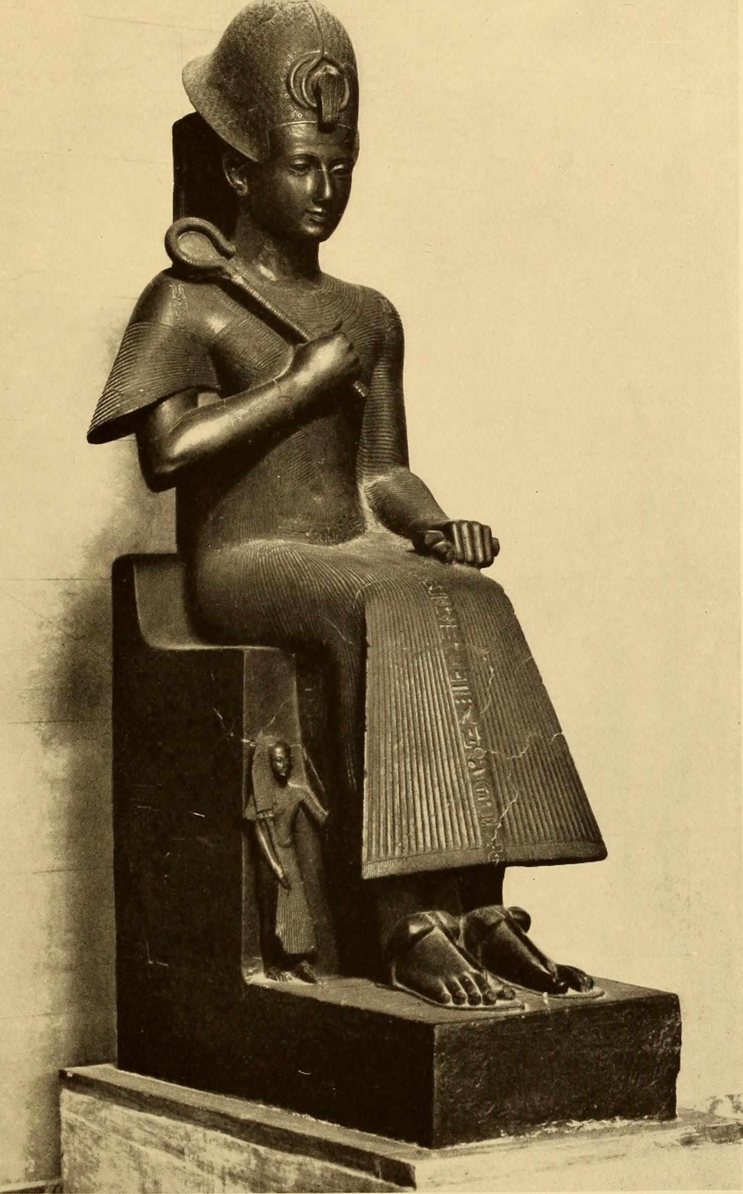 Title: Entwicklungsgeschichte der modernen kunst Year: 1920 (1920s) Authors: Meier-Graefe, Julius Subjects: Art Aesthetics Publisher: München : Piper Text Appearing Before Image: 305, 357, 360, 450, 463, 464,465,466,467, 505, 514, 529, 641, 661 Waldmann, E 289, 294, 310 Waldmüller 288, 313 Walser, Karl 541 Ward, James 183 Wasmann 112, 118,645 Watteau 63, 72, 73, 74, 75, 81, 91, 115, 139, 260, 351, 352, 442.443,445,466 504, 509. 582, 648, 656 Wedekind, Frank 652 Weigand, Wilhelm 355 Weizsäcker, Heinrich .... 305, 306Werfel, Franz 541 Seite Werth, Leon 533, 538, 625 Westheim, Faul 553 Weyden, Roger van der .... 49, 51Whistler 20, 88, 179, 180, 193, 257, 258, 277. 278, 279. 322,324,404,413,431, 445, 472, 581, 605 Wild, Erich 551 Wilde, Oscar 630 Wilhelm 1 239 Wilhelm II 676, 686 Wilkie 132, 173, 180, 288 Willumsen 640 Wilson 171, 174, 177, 183 Winckelmann81,84,85,111,112,633,669 Witz, Conrad 572 Wolfif, Albert 264 Wollaston 418 Worringer 661 Wouverman 118 Wrba 392 Young, Thomas 417 Zimmermann, Ernst 307 Zola 323, 418, 558, 559, 560, 561, 563, 603 Zorn, Anders 645 Zuloaga 627 Zurbaran • 221. 222 Druck von Hesse &. Becker in Leipzig. ¥ ABBILDUNGEN i i 391 Text Appearing After Image: Ramses II.Turin, Museum 392